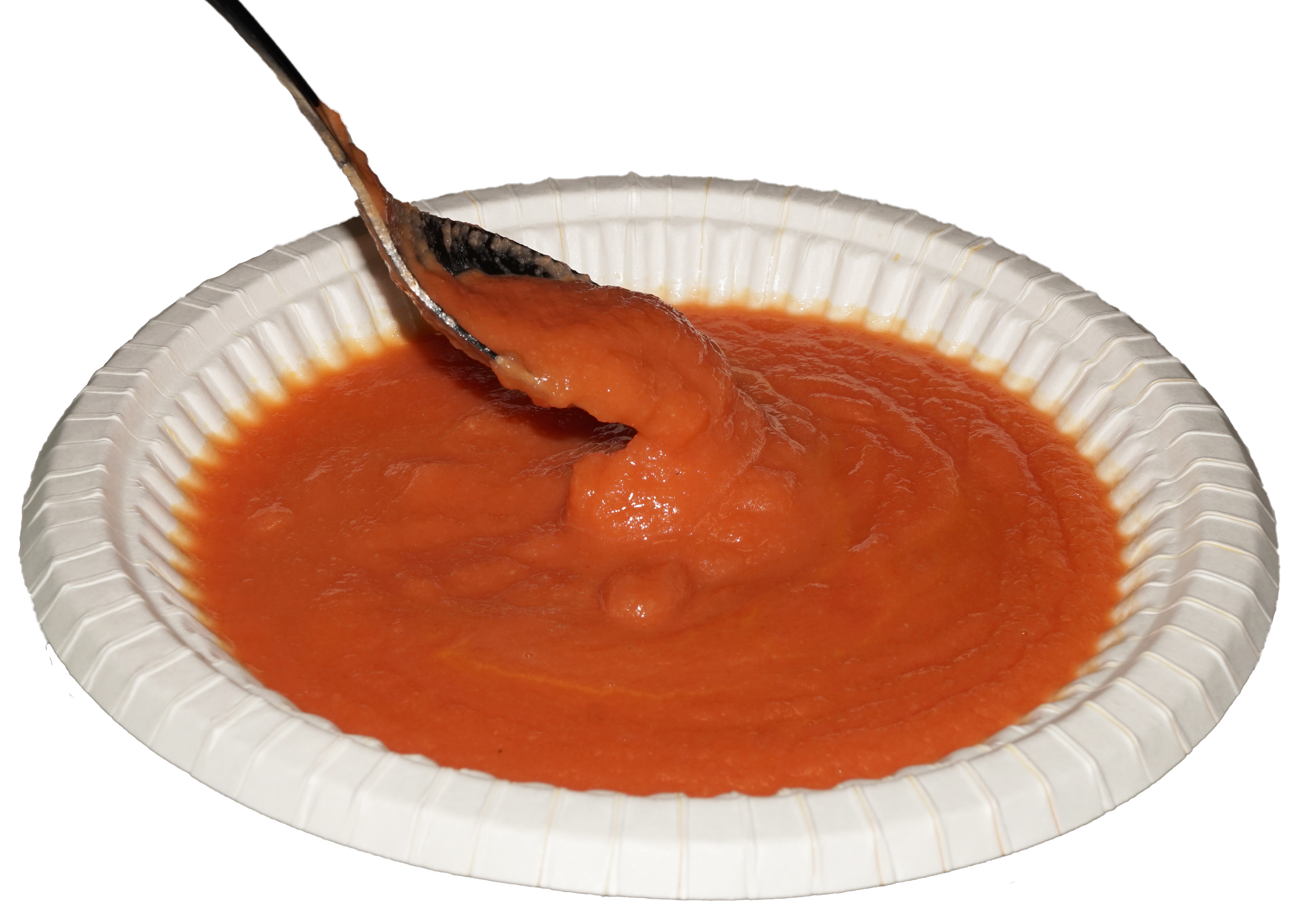 Puréed vegetable soup, includes vegetables and lentils.